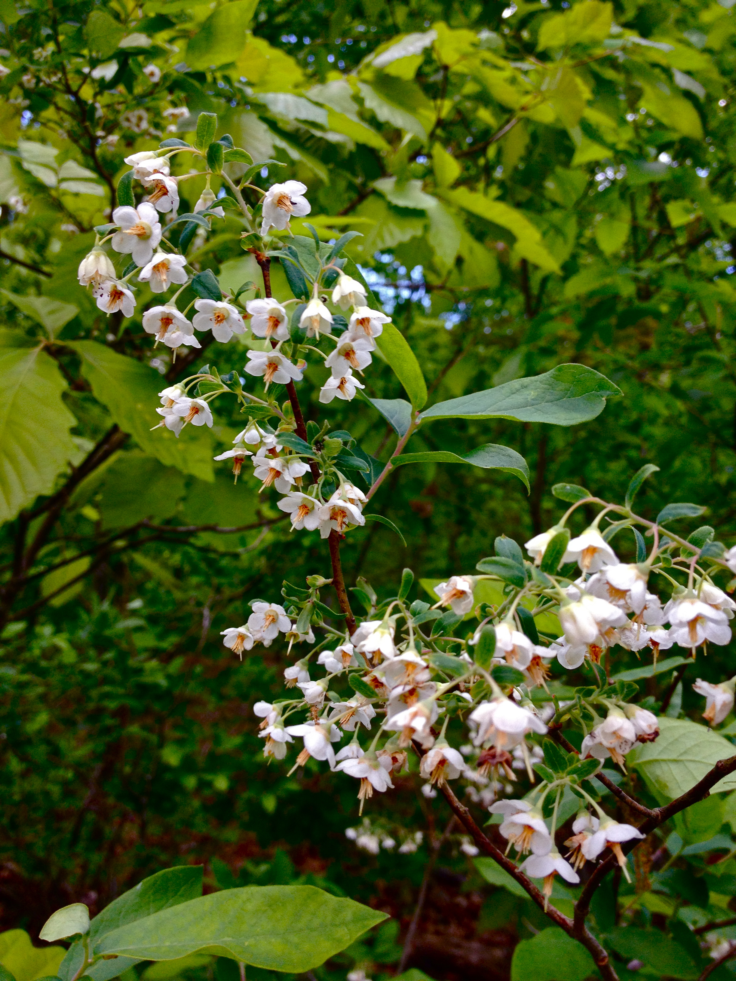 Photo of Vaccinium stamineum in flower. This is a native plant growing wild in the C & O Canal National Historical Park, Montgomery county Maryland, USA. This species is a member of the Ericaceae family.